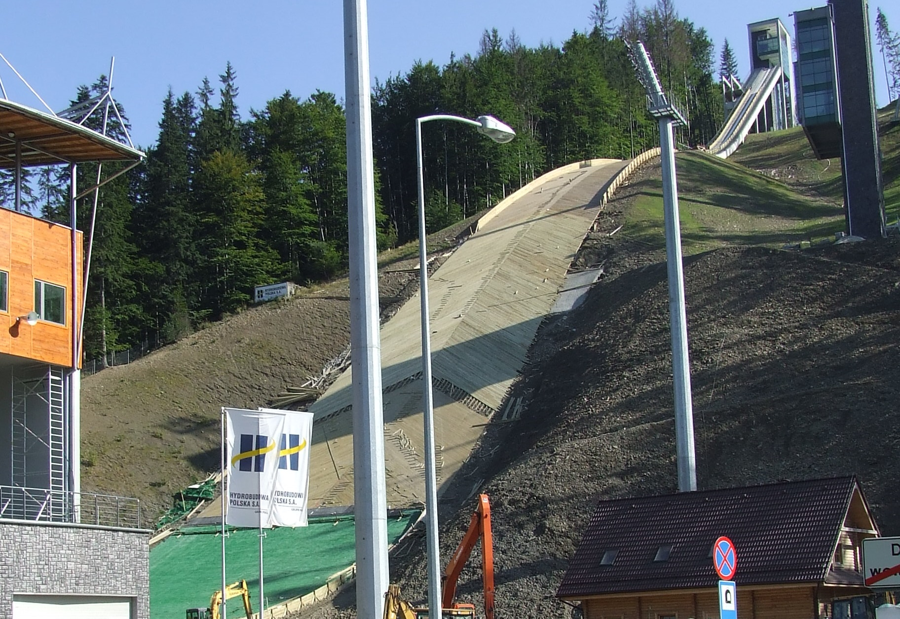 Ski jump in Wisła